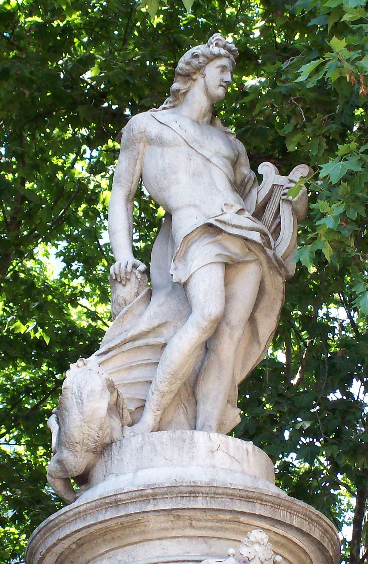 Statue of Apollo sculpted by Alfonso Giraldo Bergaz (1744–1812). Detail of the Fountain of Apollo in Madrid (Spain).